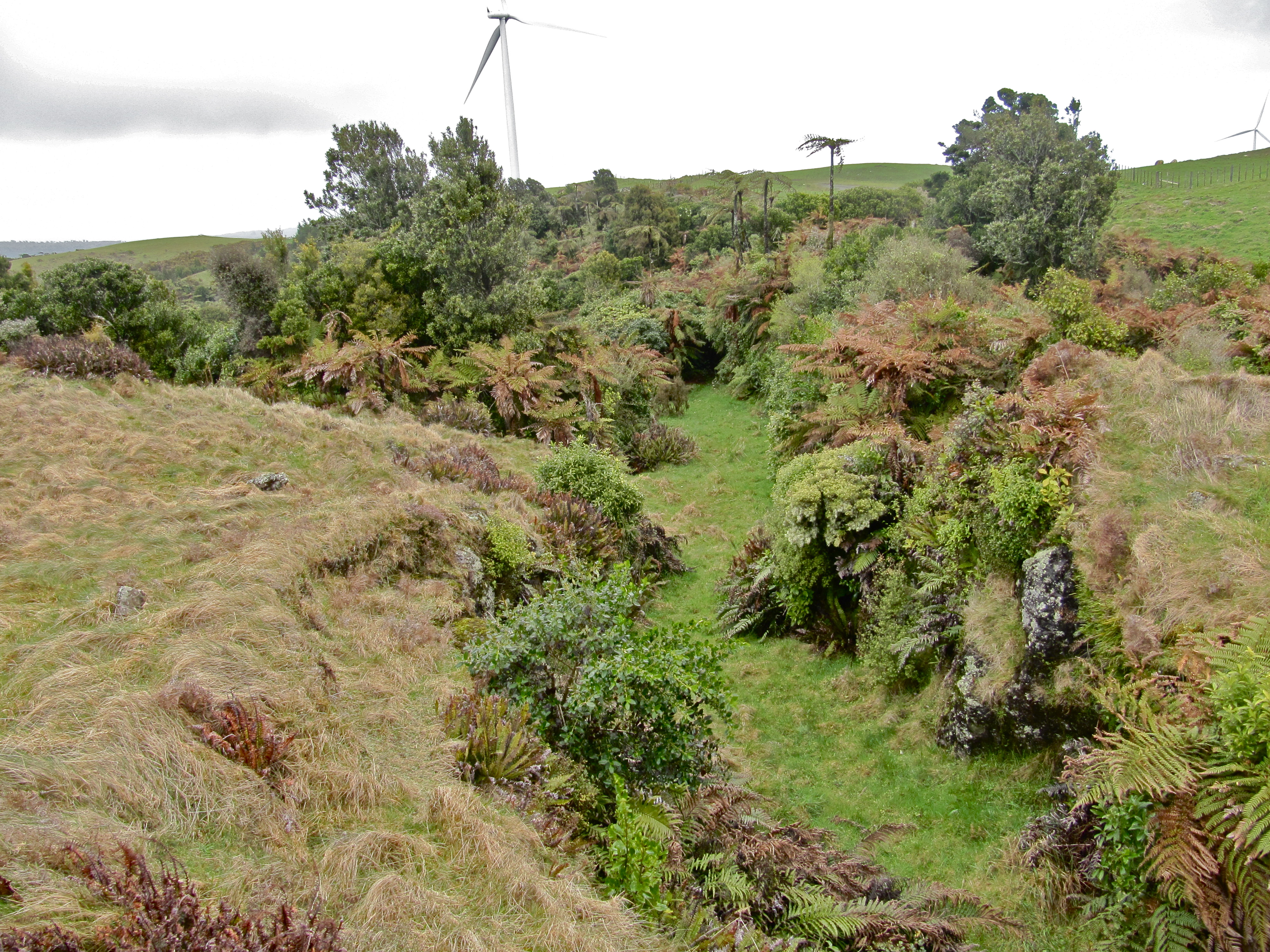 The paper road was partly formed in the 1900s and abandoned after the Great War, though Public Works Dept formed a track linking it to Aotea about 1919. In the 1940s it is said a car managed to follow this road, though it is now very difficult to get a bike through.